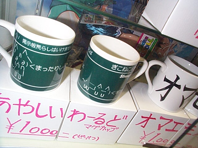 The Gikoneko MugCup Photo by Anonymous user(空白 Kūhaku),at jan.24,2001.